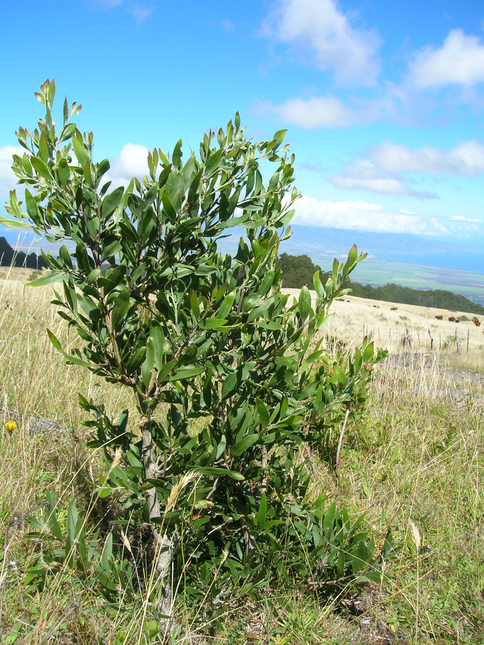 Acacia melanoxylon (small tree). Location: Maui, Kahakapao Gulch